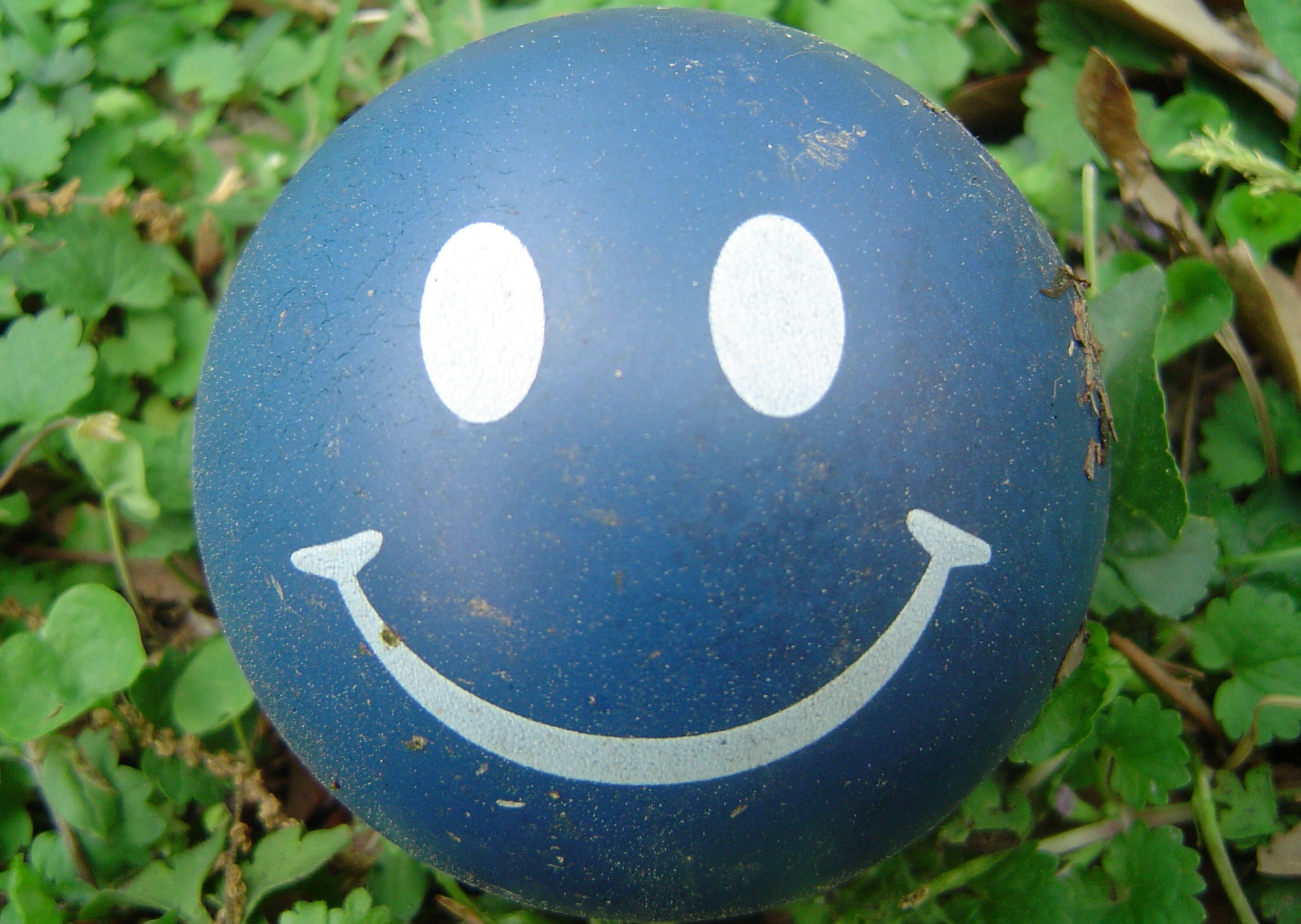 A cushioned ball with a smiley face that I randomly found in my backyard. He looked so pleasant staring back at me that I just had to take a picture of his disembodied, blue head.